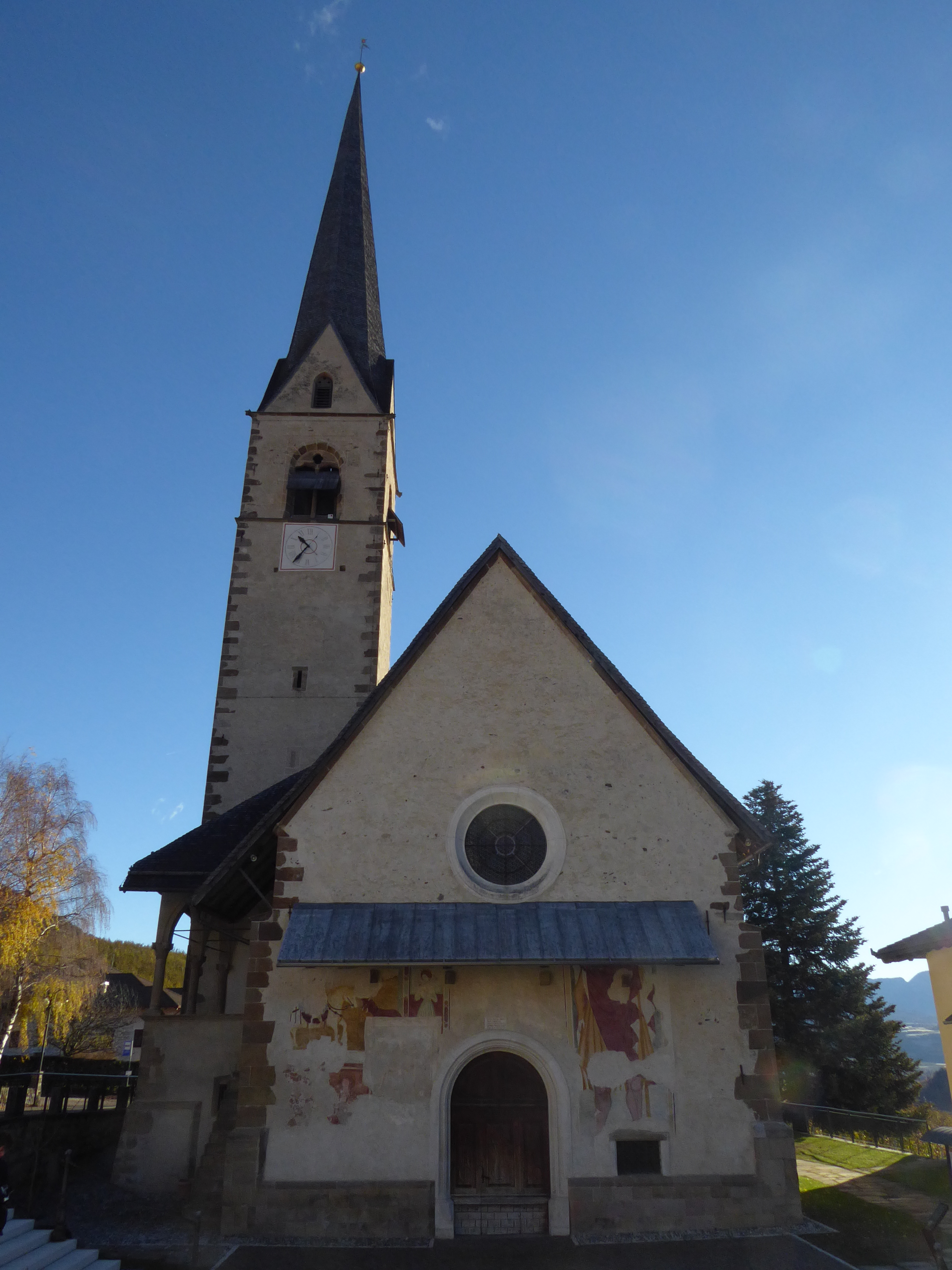 Varolo (Livo, Trentino, Italy) - Church of the Nativity of Mary